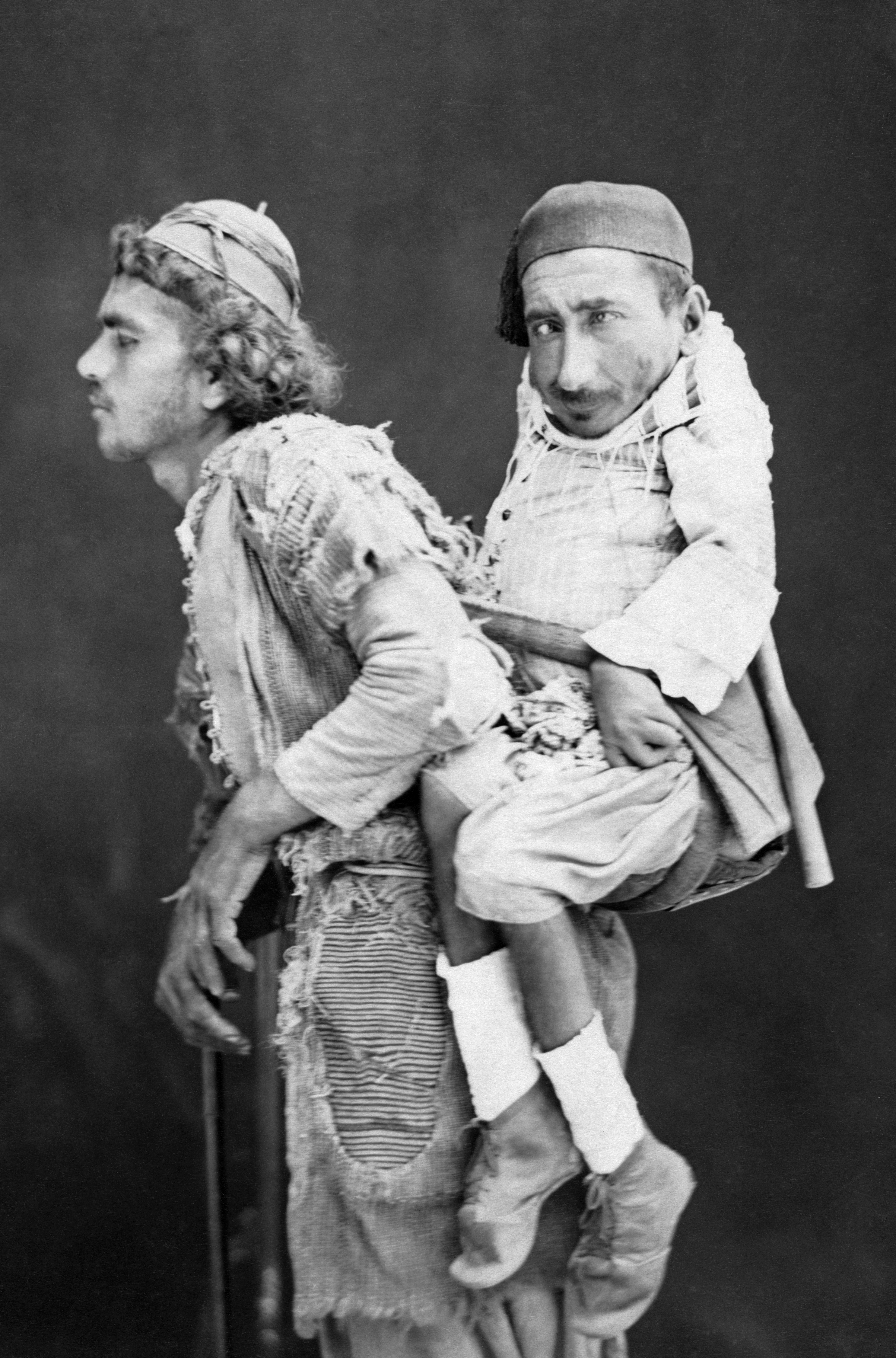 A blind man carrying a deformed man on his back in the Levant.